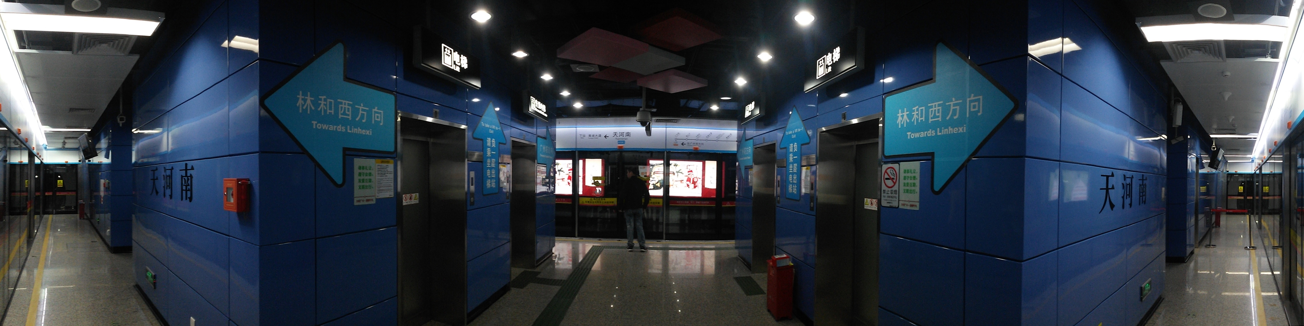 FULL SIGHT of Platform for Tianhe South Station (Towards Linhexi) in Guangzhou Metro. 粵語: 廣州地鐵，天河南站嘅月台全景（去林和西嗰邊）。